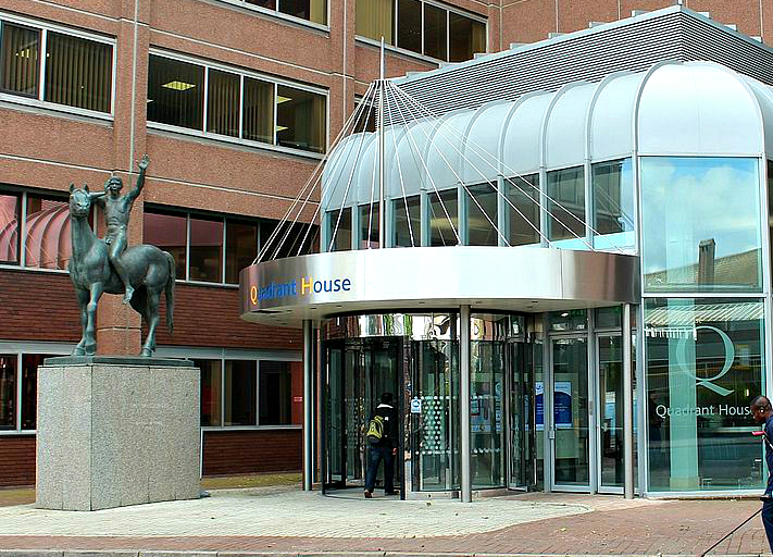 The Messenger, Quadrant House, Sutton, London